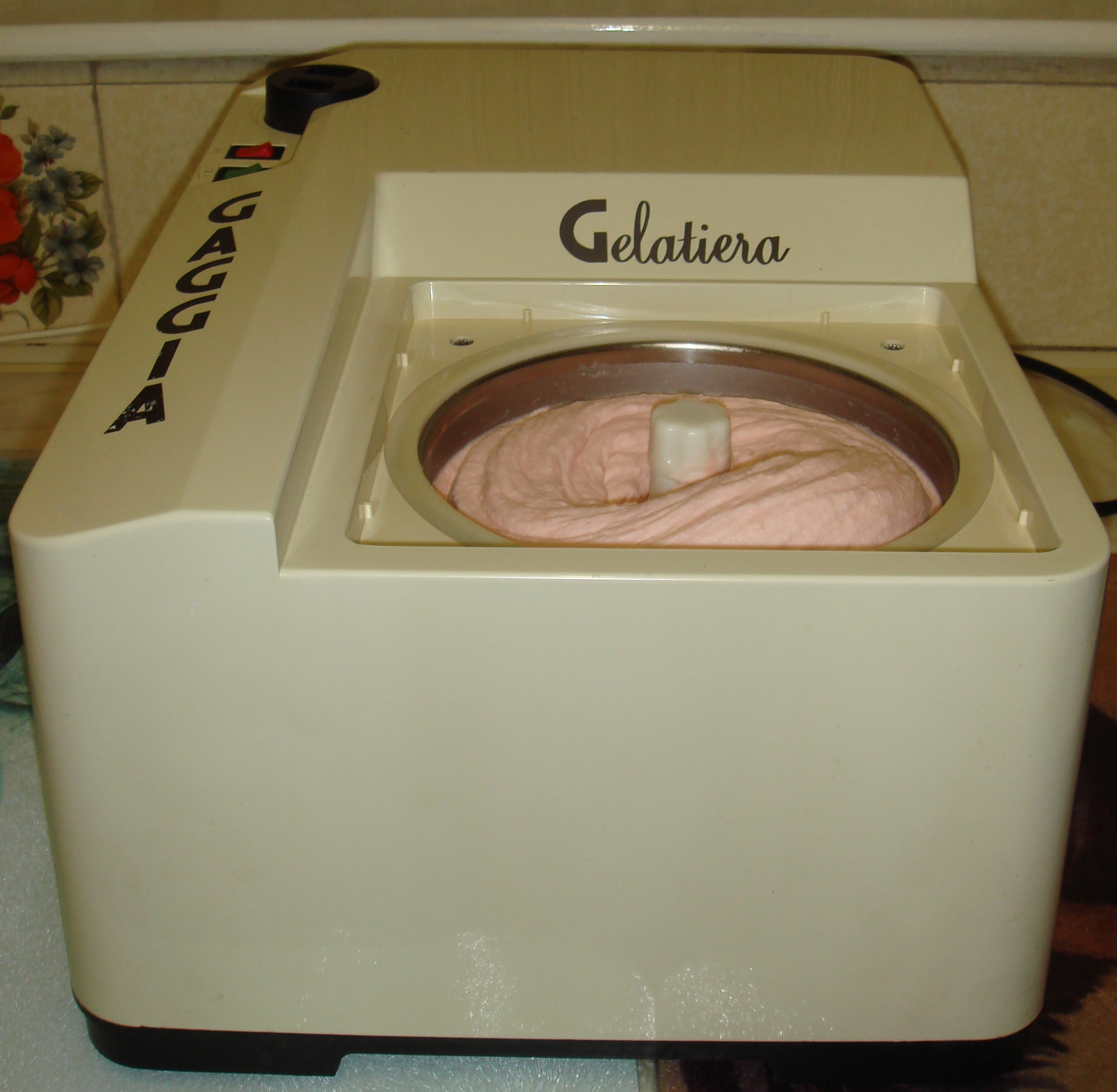 Photo of Gaggia ice cream maker taken by ElinorD in February 2007.